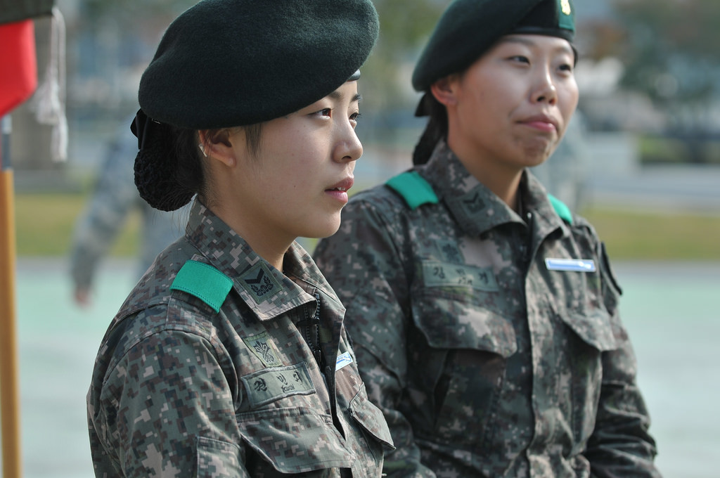 South Korean army soldiers Staff Sgt. Kim, Min Kyong, right, and Staff Sgt. Kwon, Minzy, both infantryman from the Republic of Korea’s 21st Division are the first women in the ROK to earn the Expert Infantryman Badge at Camp Casey, South Korea, Oct. 23. The EIB is a grueling two-week course that has historically only been offered to males in combat arms specialties. With current policy changes and many women now filling combat roles, women are now eligible to compete for the badge.